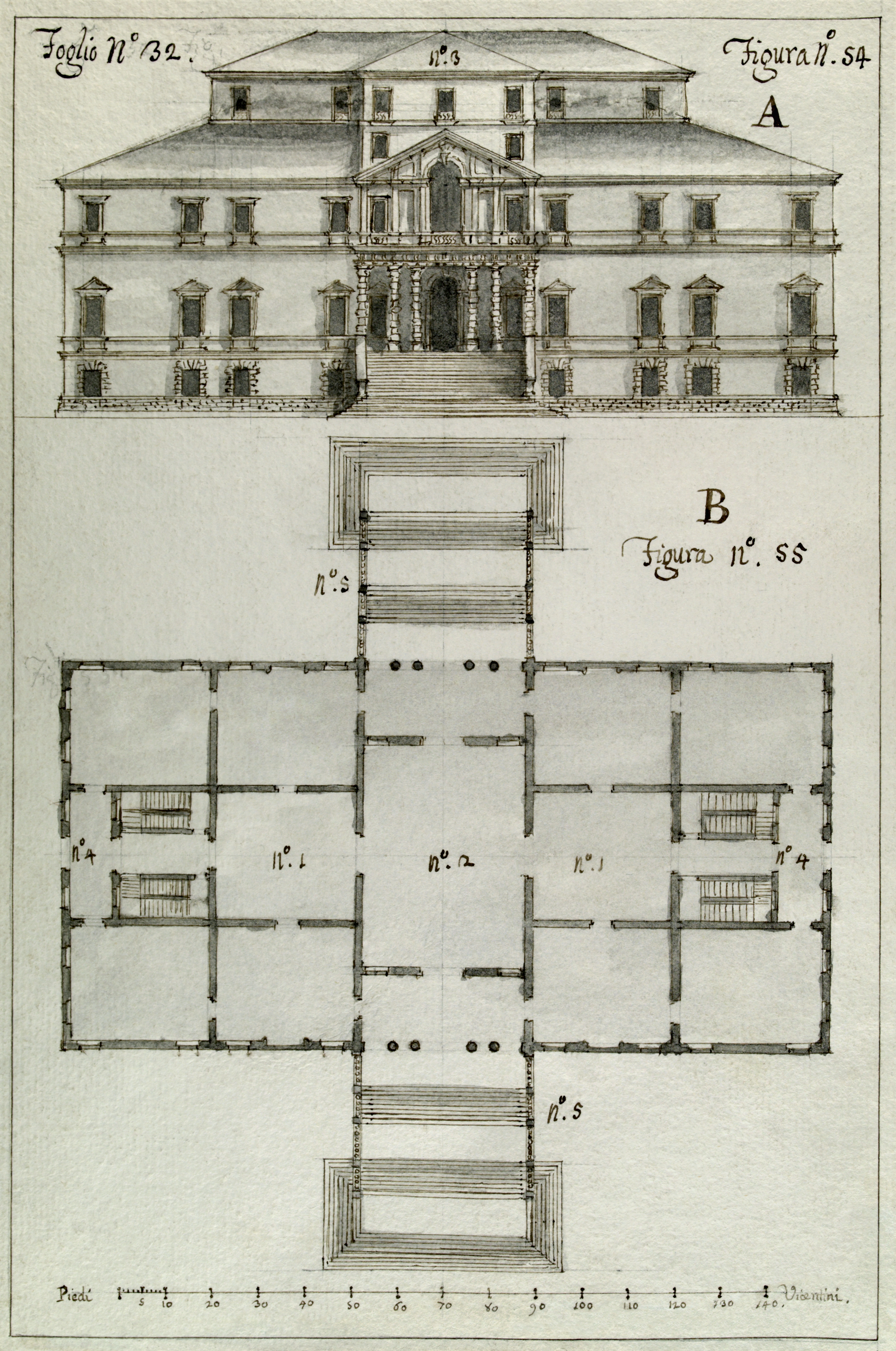 Villa da Lezze in San Biagio di Callalta, province of Treviso, Italy (built 1670-1739 by Baldassarre Longhena; destroyed between 1813 and 1825). Drawing by Francesco Muttoni [1] Disegni originali dell'edizione di Palladio di Giorgio Fossati. From drawings in pen and ink and wash intended for engraving by Fossati and for inclusion in vol. 10 of Muttoni's edition of Andrea Palladio's Architettura (Venice, 1740-48); vol. 10 was never published. Digitized version scanned from manuscript.